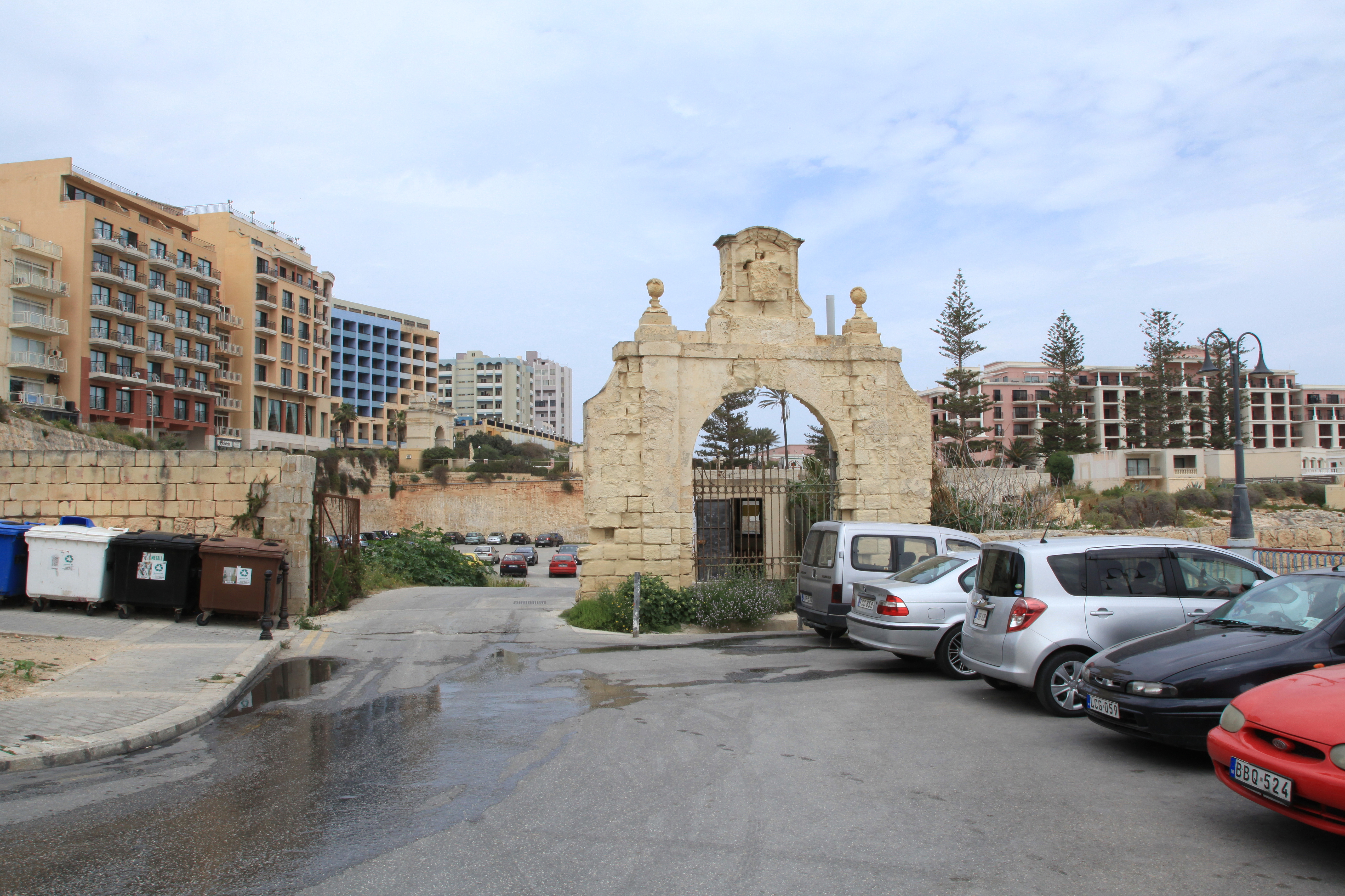 Triq il-Wilga in St. Julian's, Malta